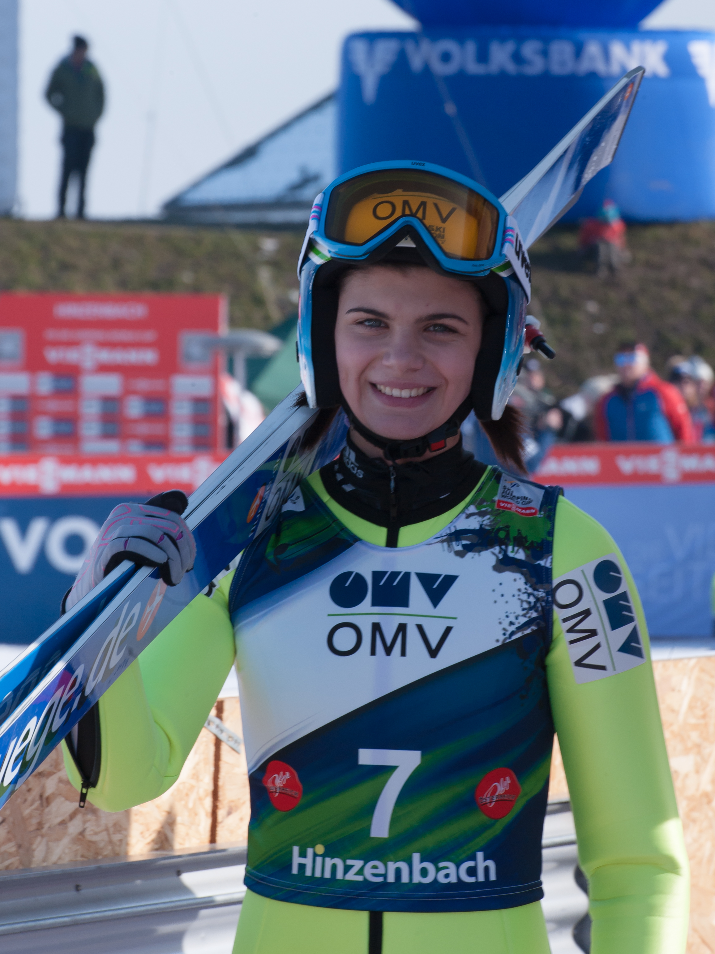 FIS Ski Jumping World Cup Hinzenbach Sun 1 Feb 2015